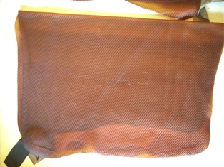 Ribbed Smoked Sheet Picture